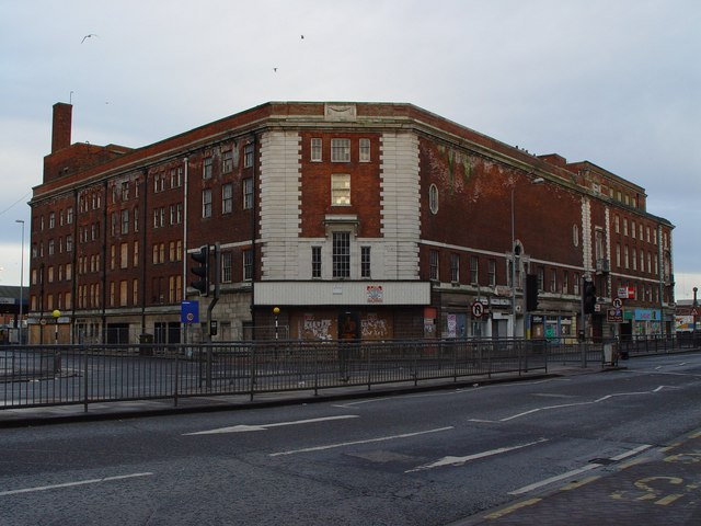 The Regal Cinema. A cinema plus other businesses such as the Electricity Showrooms and Regal Chambers. The building was built by Robert Greenwood Tarran circa 1934. This photograph was taken shortly before demolition to make way for the St Stephens development (see 604079) which was completed in September 2007.